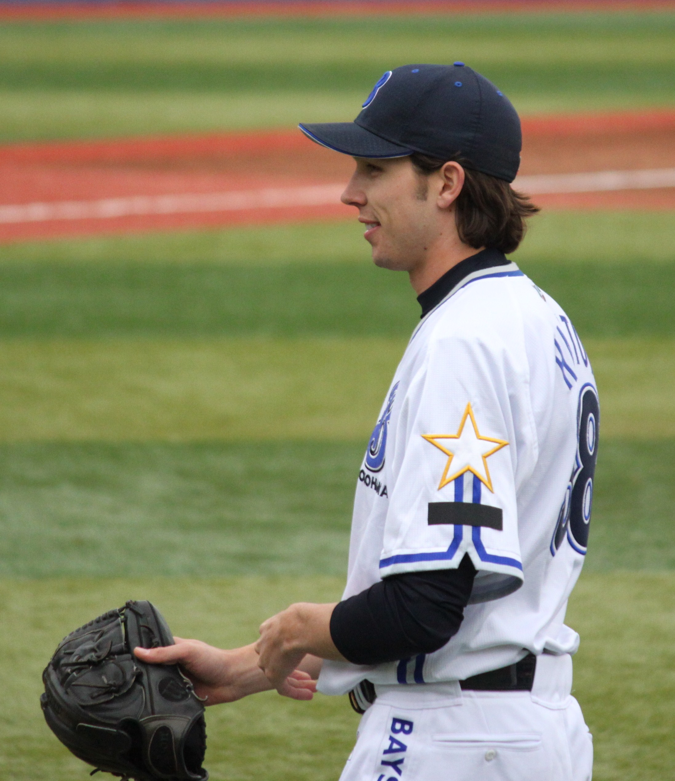 Clayton Hamilton, pitcher of the Yokohama BayStars, at Yokohama Stadium.